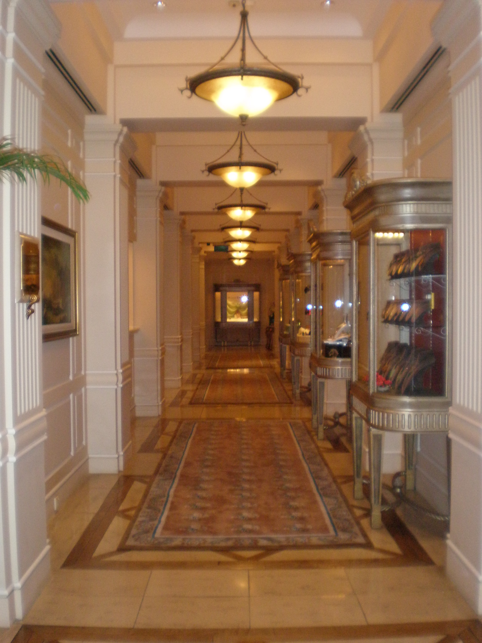 A hallway on the first floor of The Peninsula Hotel in Hong Kong.